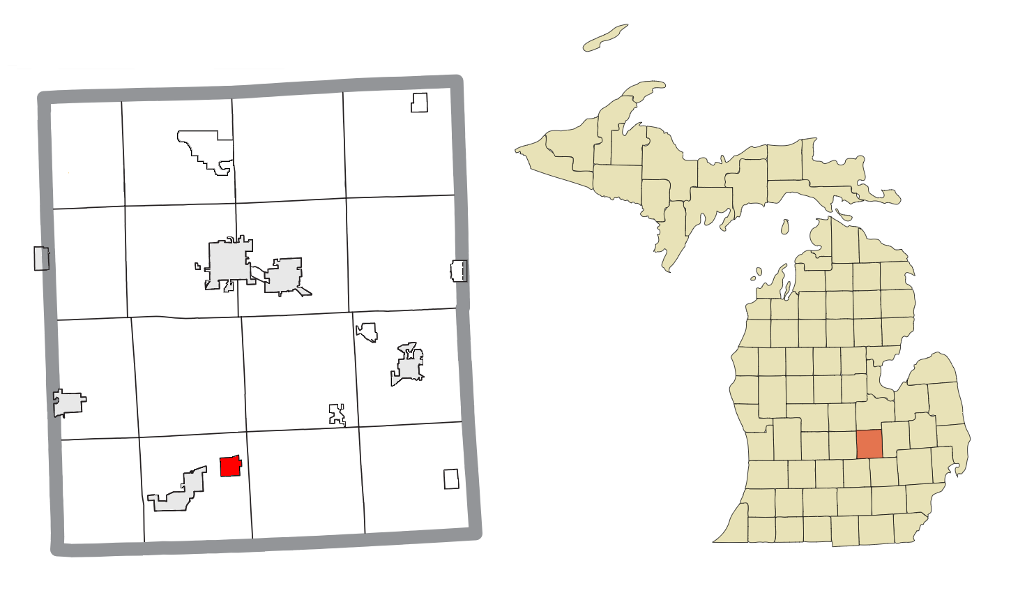 Morrice, MI